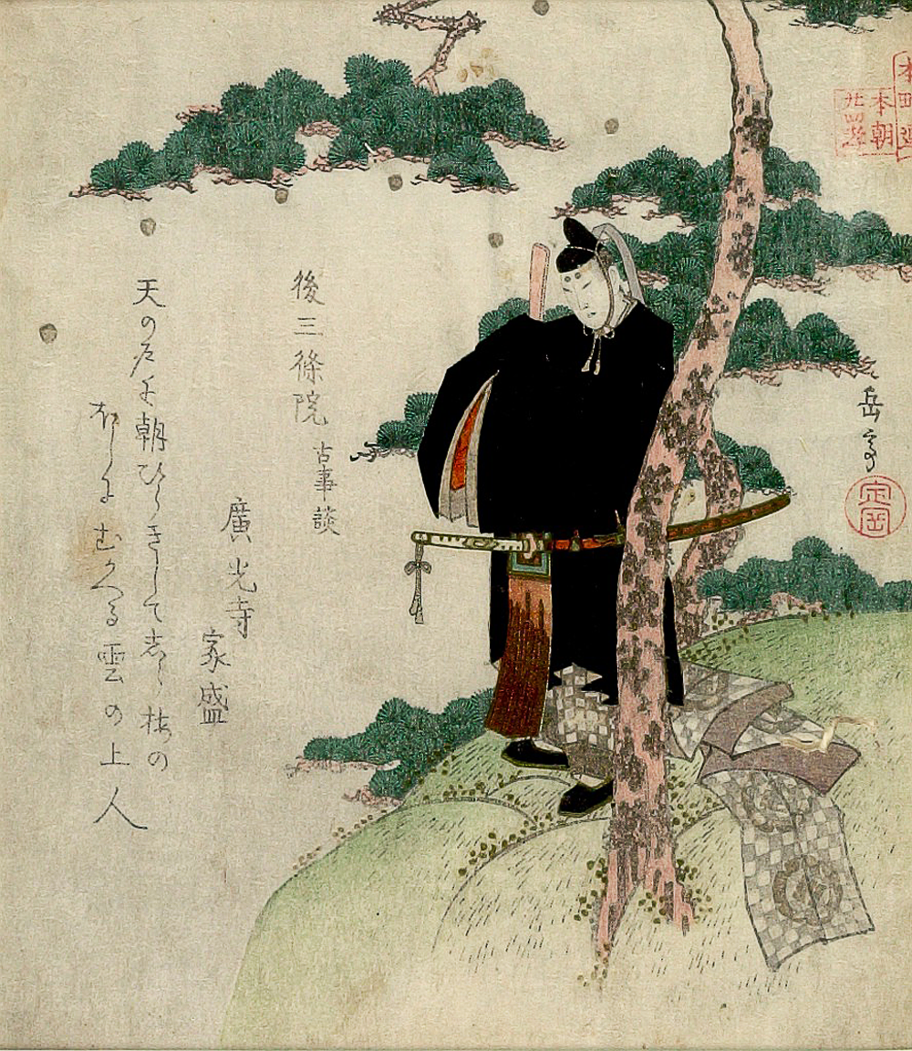 Retired Emperor Go-Sanjo (Gosanjôin), from the series "Twenty-Four Japanese Paragons of Filial Piety for the Honchô Circle" (Honchôren honchô nijûshikô), with a poem by Kôkôji Iemori.